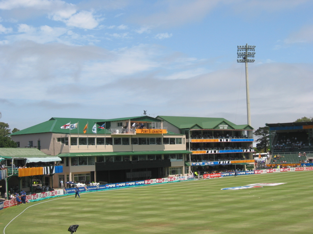 Photo by Paddy Briggs